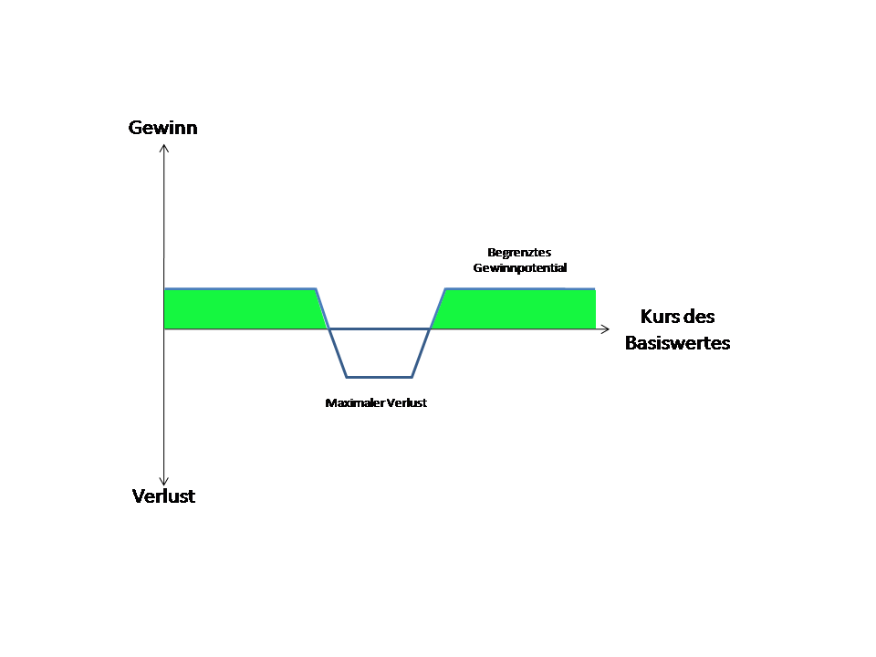 Short Condor Spread